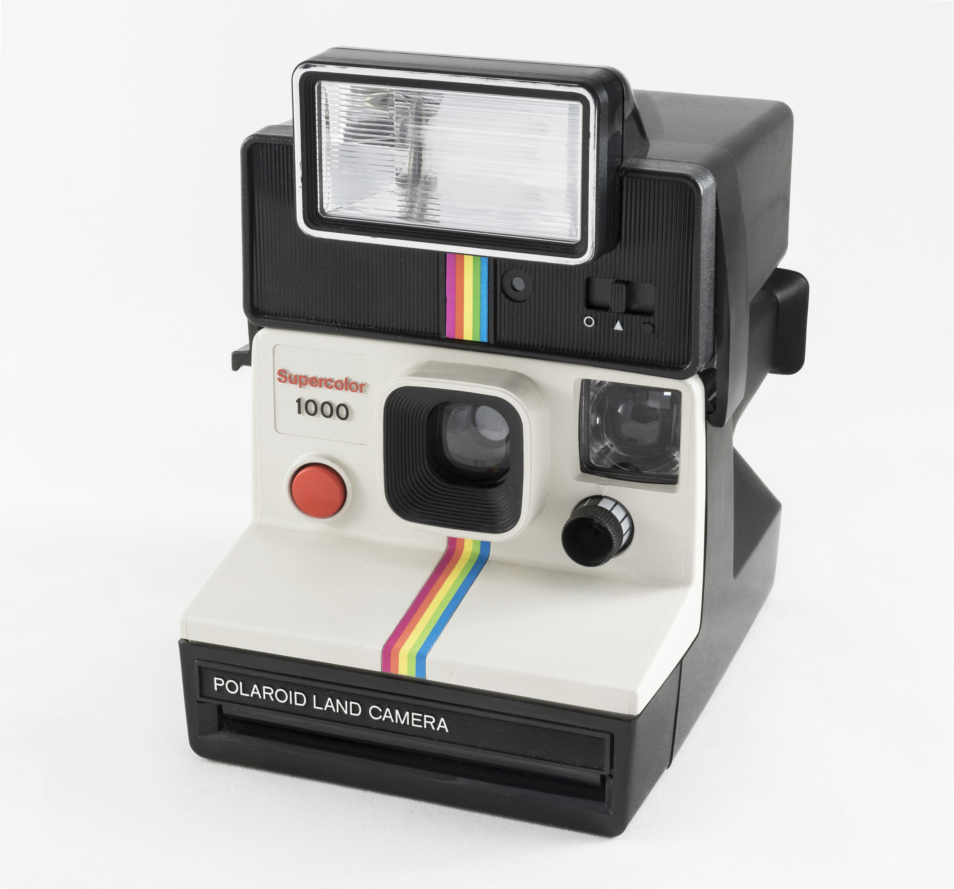 Polaroid Supercolor 1000 camera